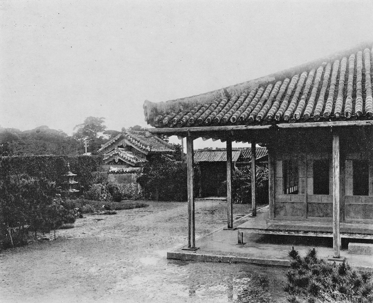 Omote Zashiki (Front Hall), the middle gate and the main gate of Nakagusuku Udun (Palace)